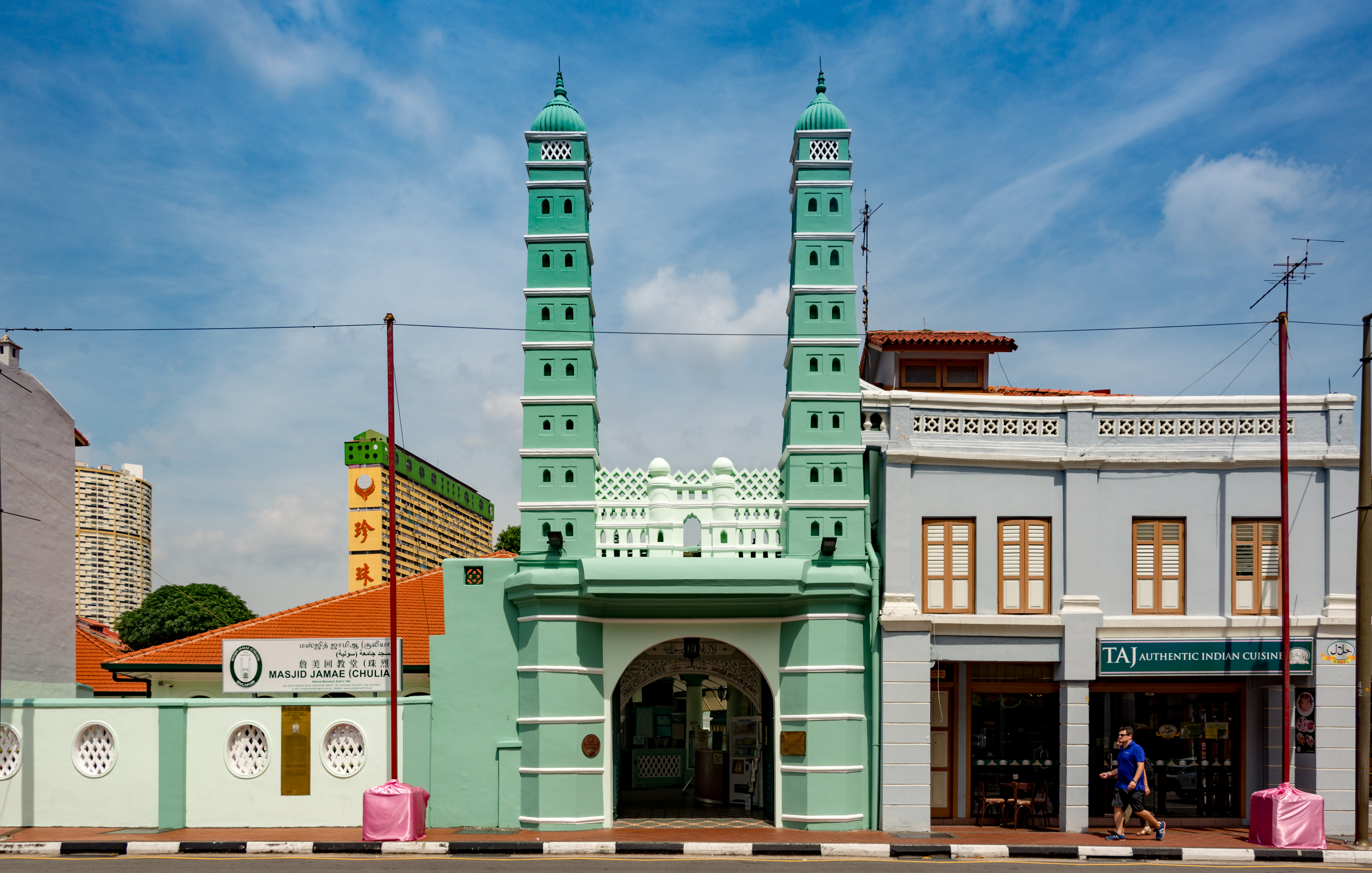 Masjid Jamae (Chulia), Singapore.